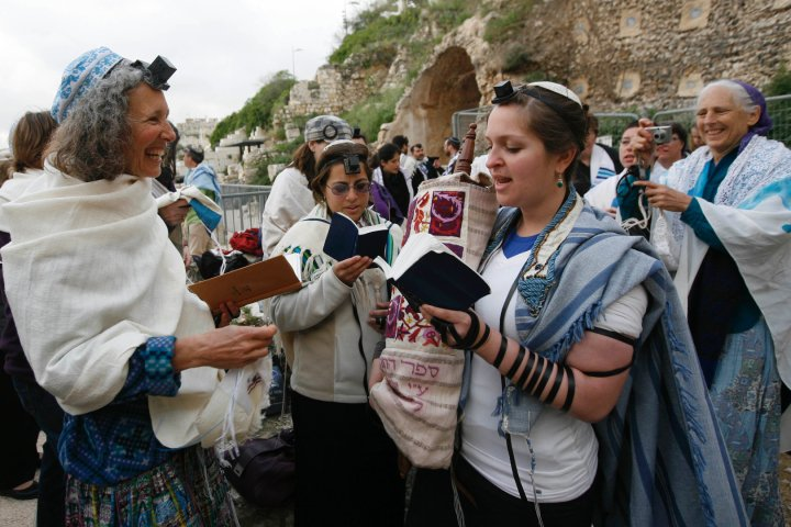 Women of the Wall praying and reading Torah at their monthly Rosh Chodesh service.